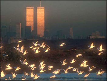 Image of the World Trade Center in New York from the US National Park Service.